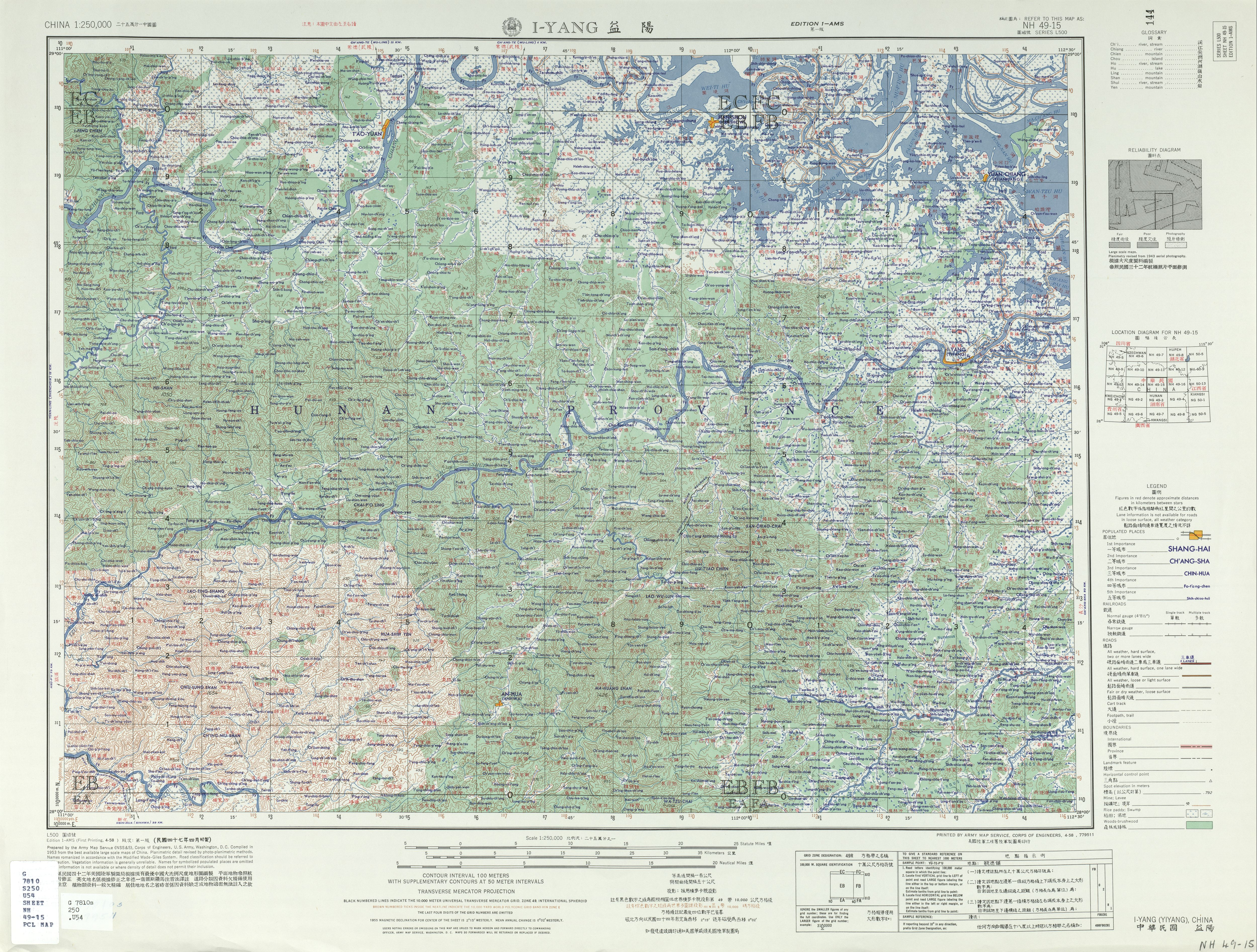 China AMS Topographic Maps